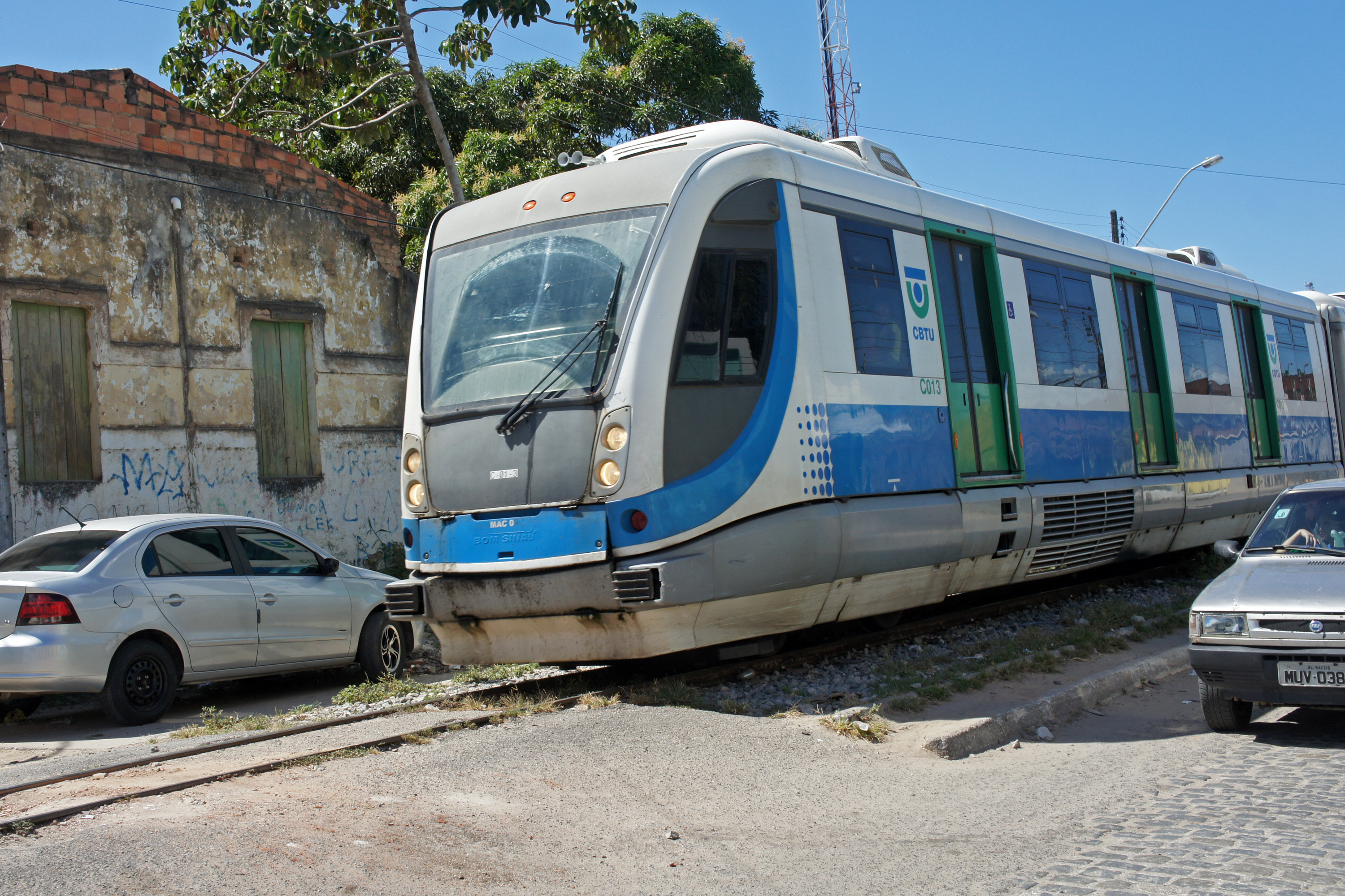 VLT Maceió CBTU, Brazil